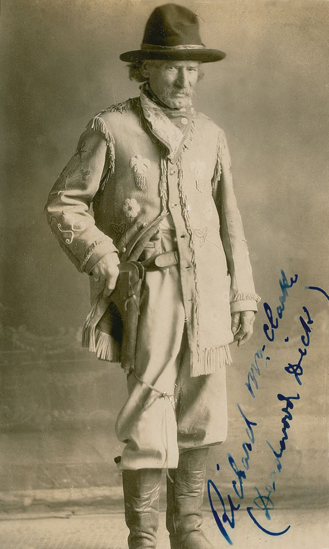 Richard Clark as "Deadwood Dick".